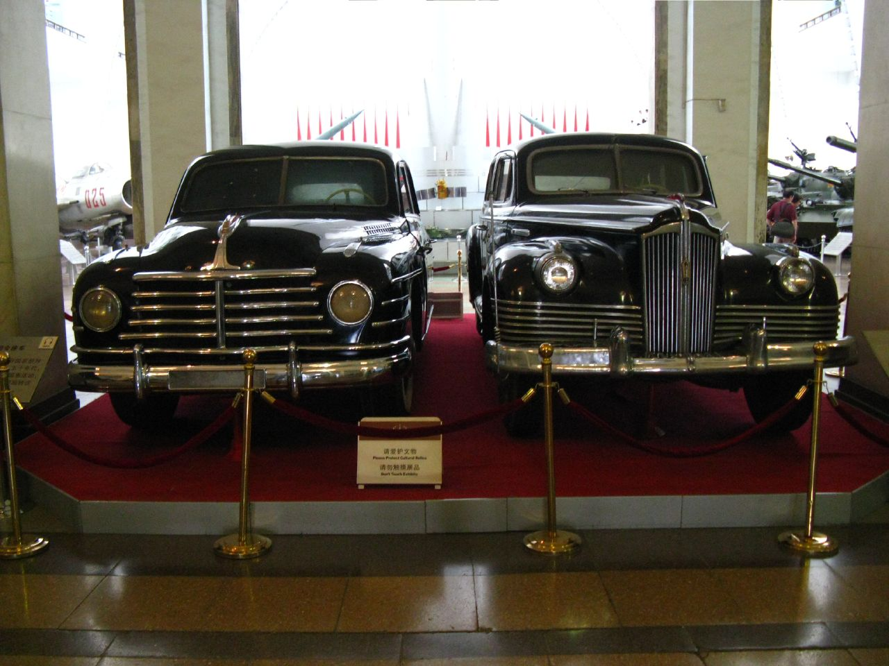 The Two cars of Zhu De and Mao Zedong.